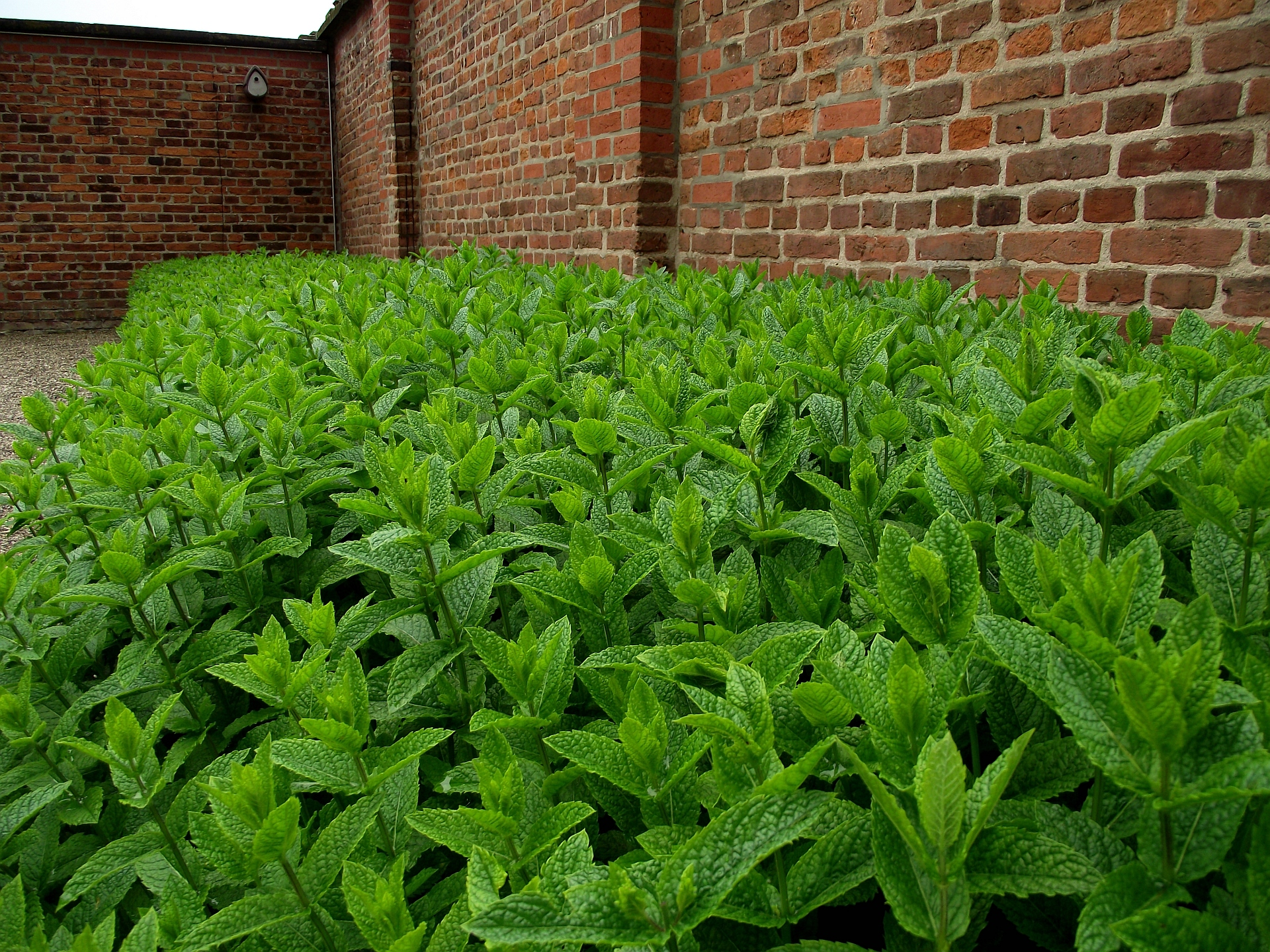 A green field of Mentha × piperita (Peppermint)